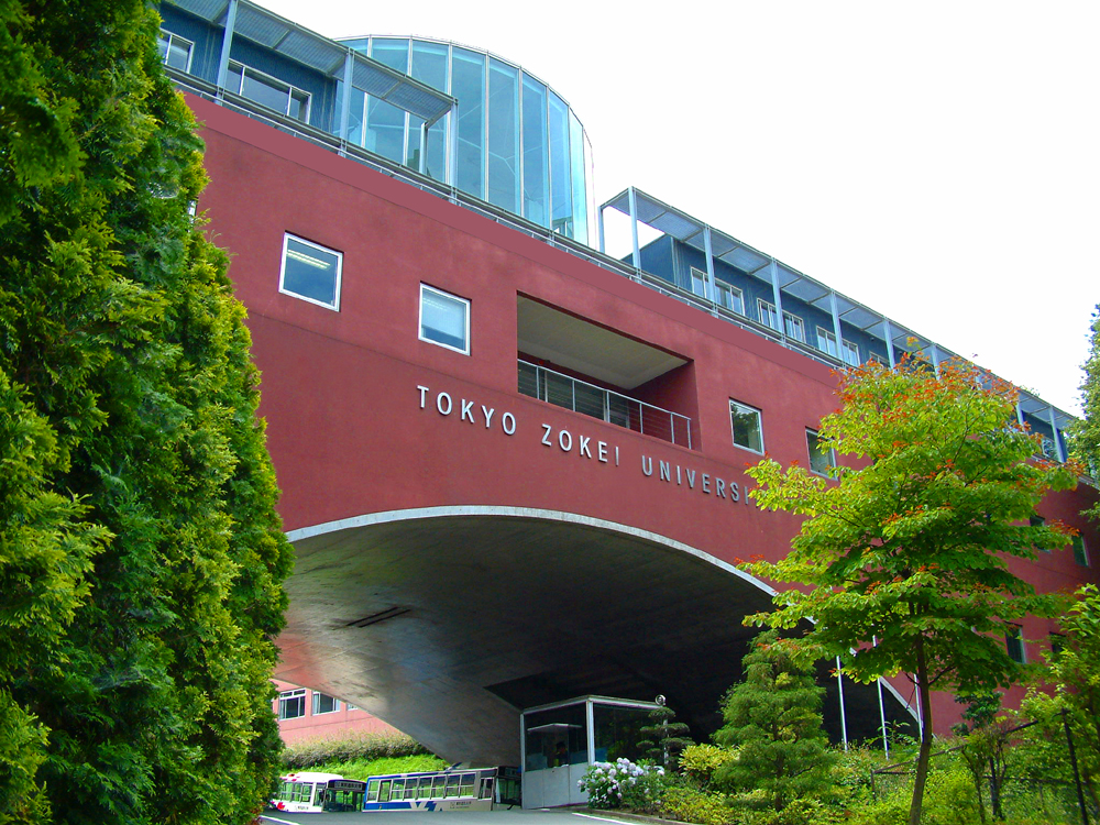 Tokyo Zokei University front shot